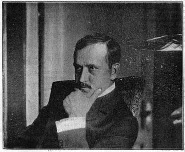 Roman Skirmunt (1868—1939)